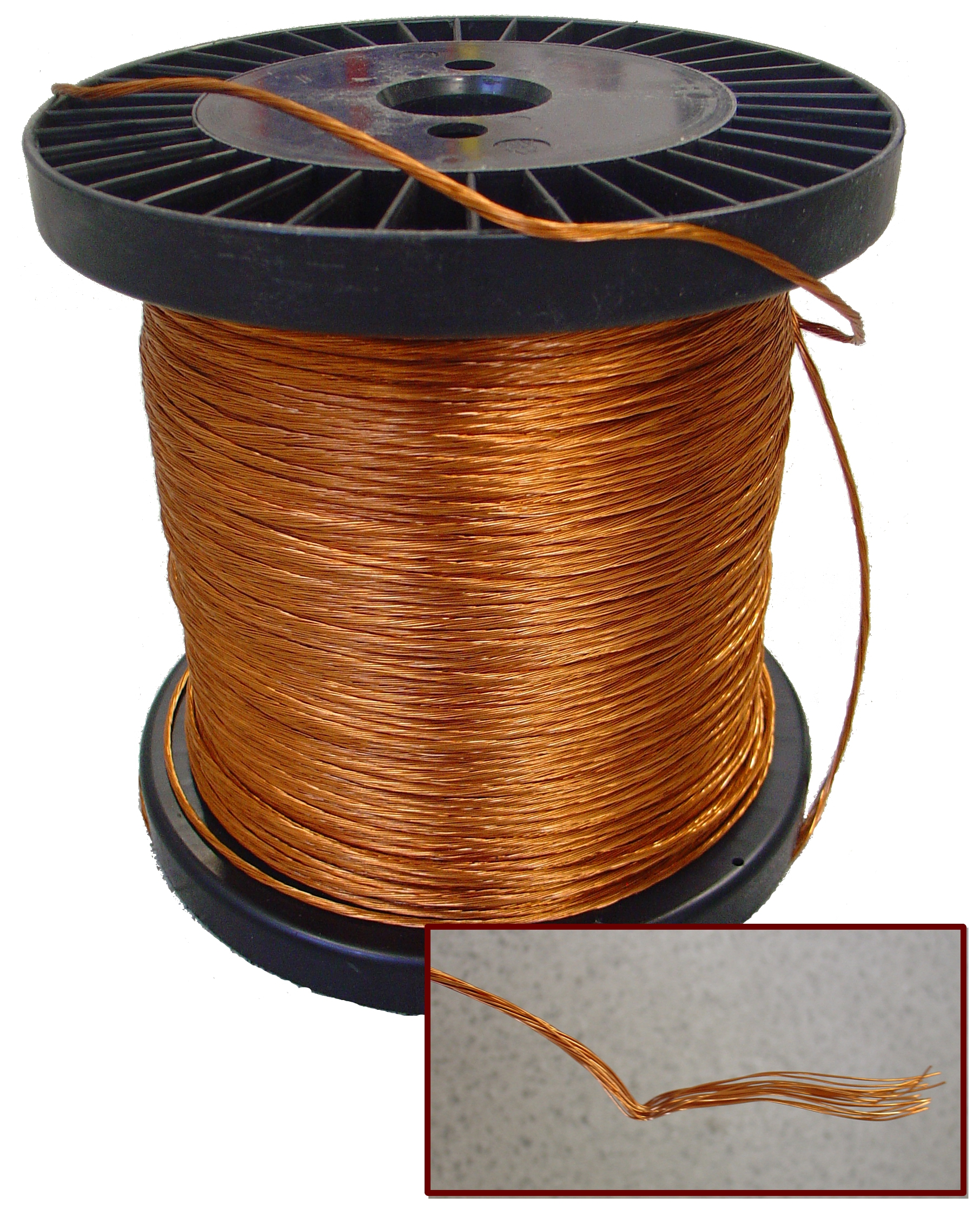 Bobbin of Litz wire plus detailed. (Without silk).